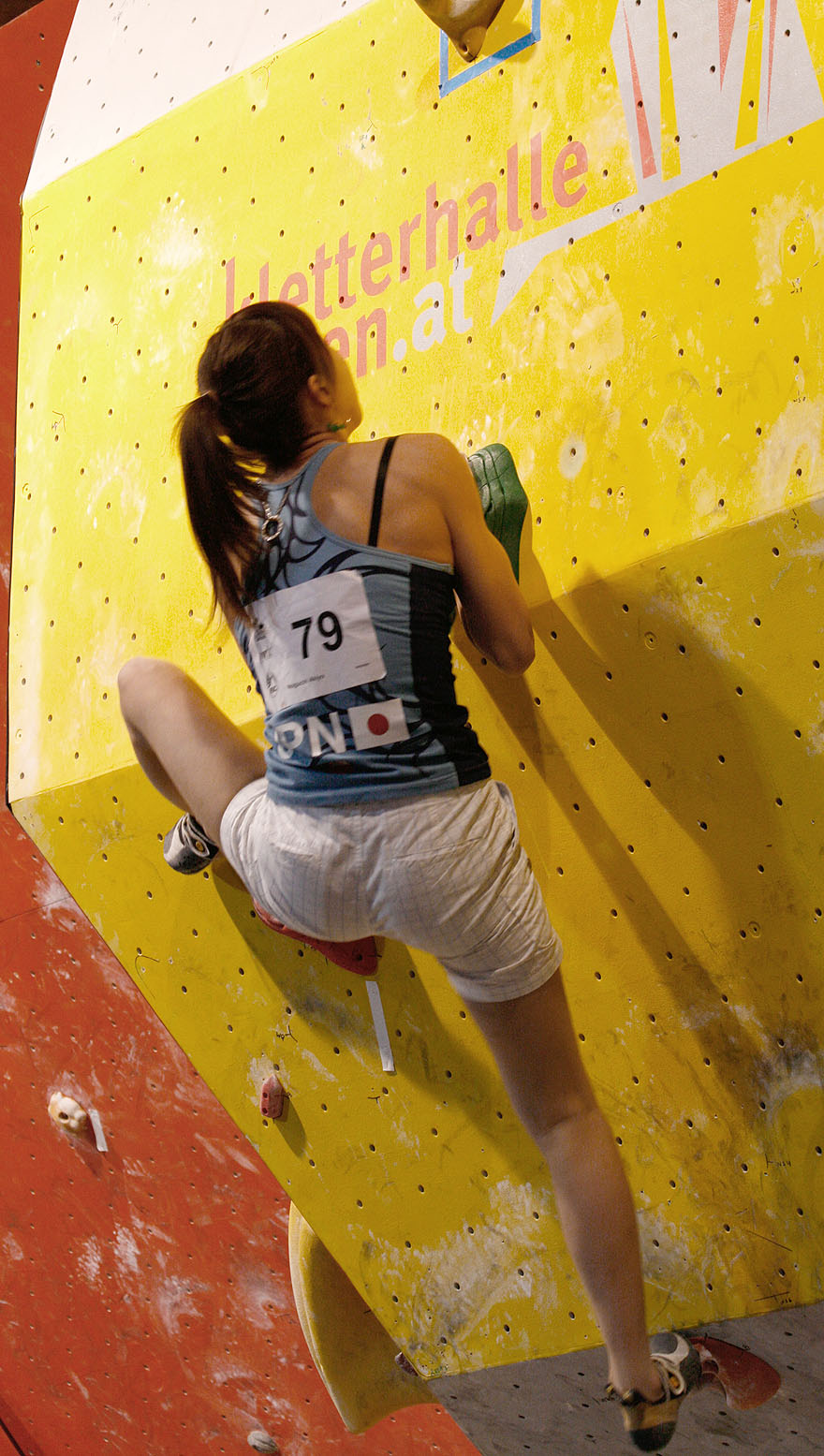 Akiyo Noguchi during the finals at the IFSC Boulder Worldcup Vienna 2010.